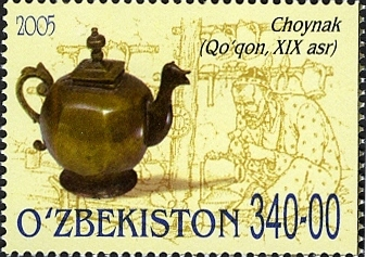 Stamps of Uzbekistan, 2005